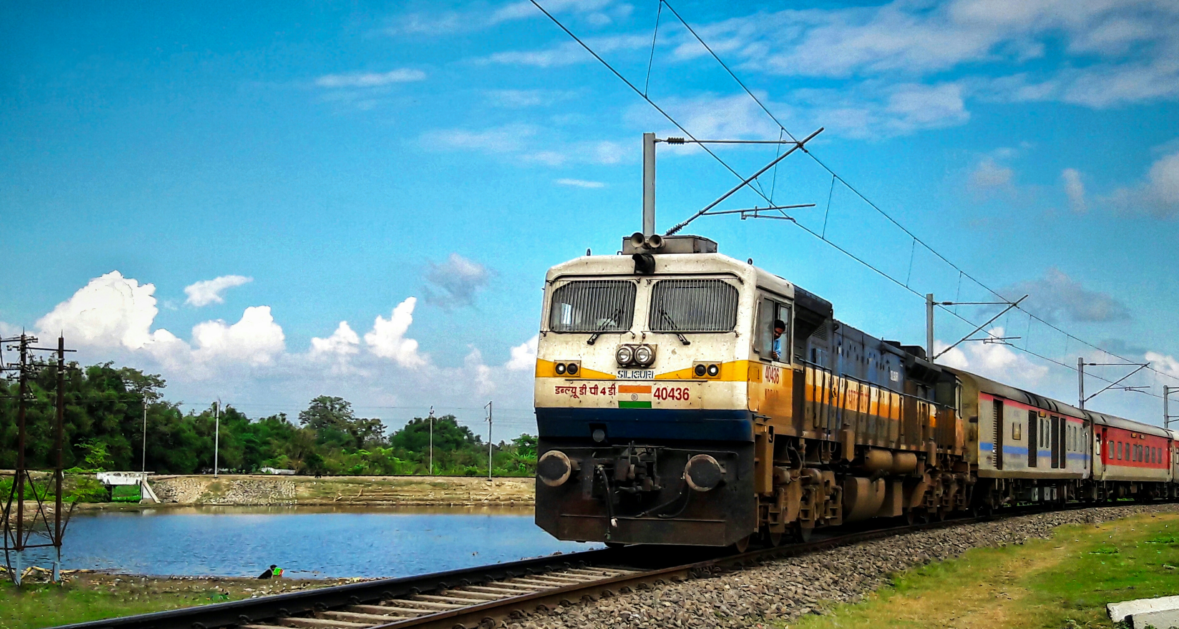 SGUJ WDP4D 40436 leading Arunachal AC SF Express at Katihar